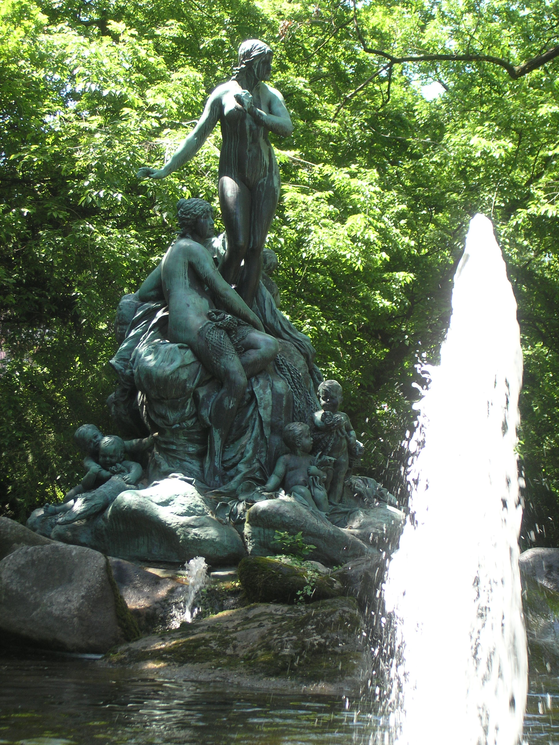 Fountain in the „nymphs′ garden“ in Karlsruhe